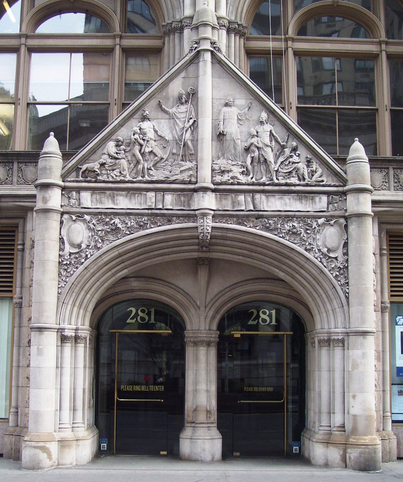 Entrance of the Federation of Protestant Welfare Agencies Building at 281 Park Avenue South at the corner of East 22nd Street in Manhattan, New York City